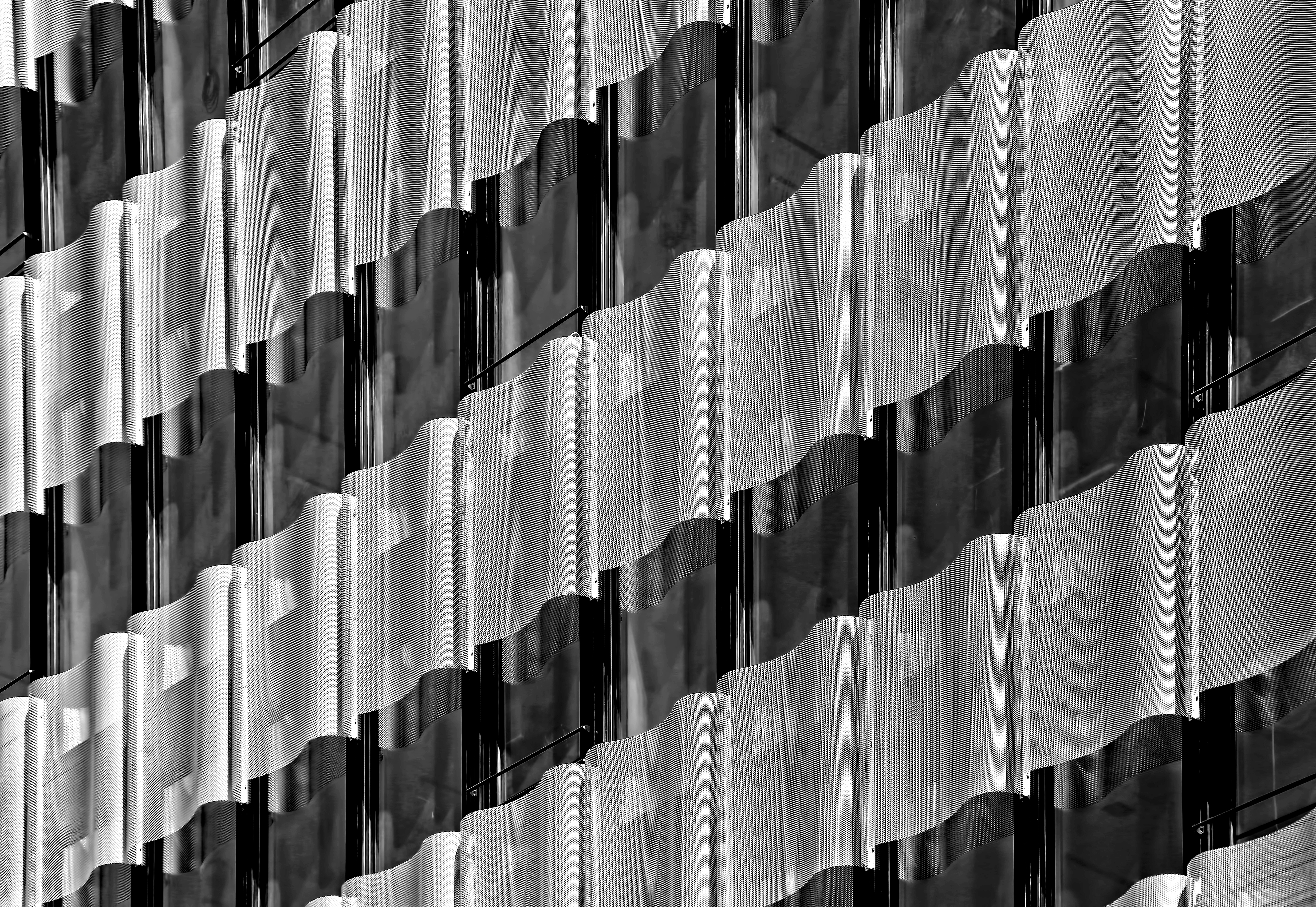 Toni-Areal, Zürich, Switzerland